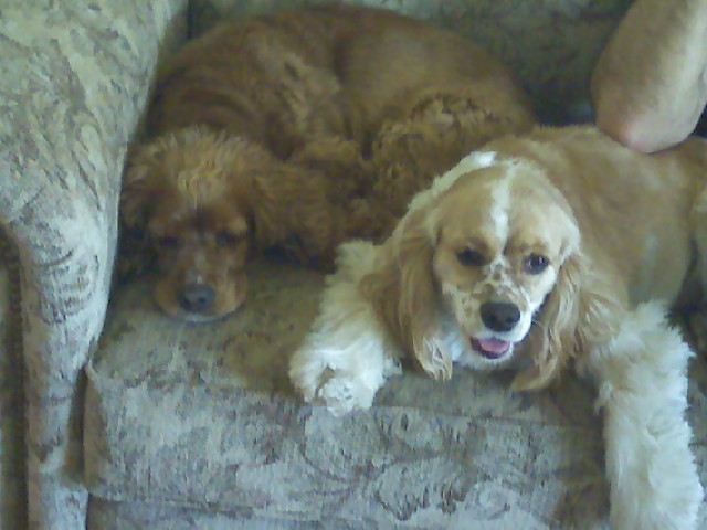 self-made picture of two American cocker spaniels. the one on the right is called Micheal Waltrip.